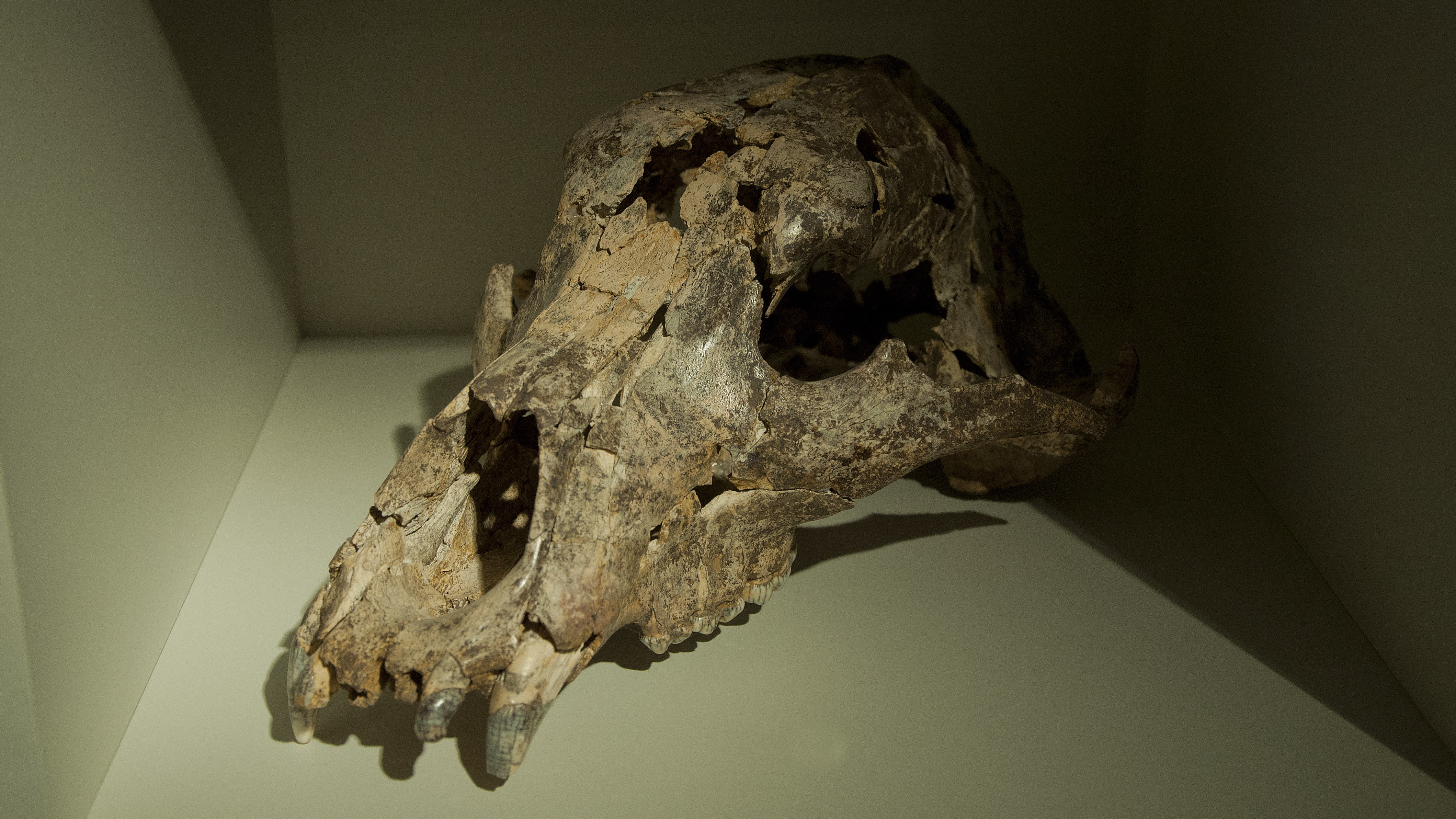 Skull of a Ursus deningeri - found in a cave in Sprimont, Belgium